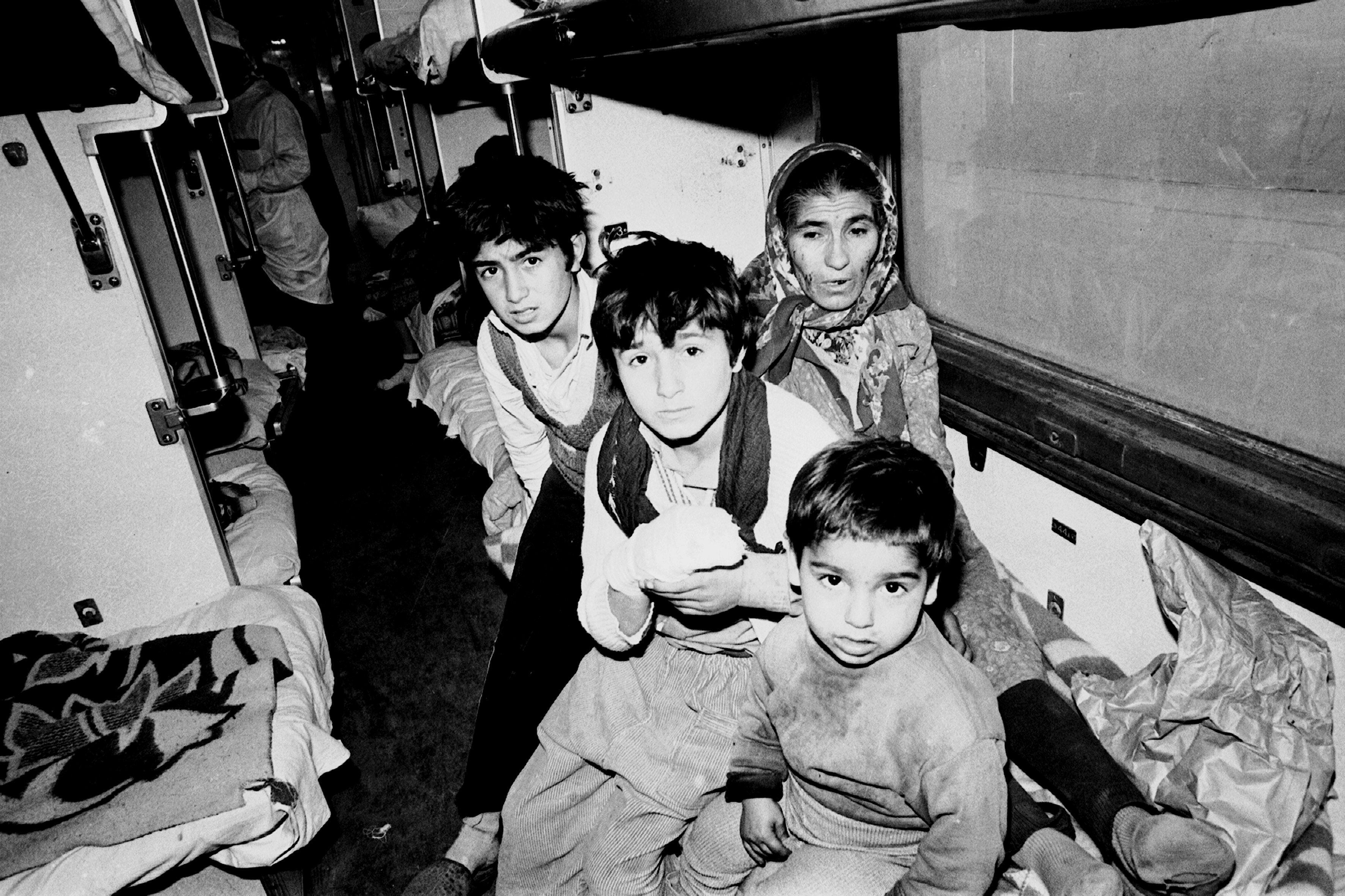 Azerbaijanian children and the olds frozen in Khojaly genocide. Train in Agdam.